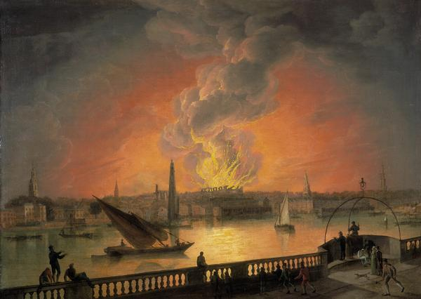 The Burning of Drury Lane Theatre from Westminster Bridge